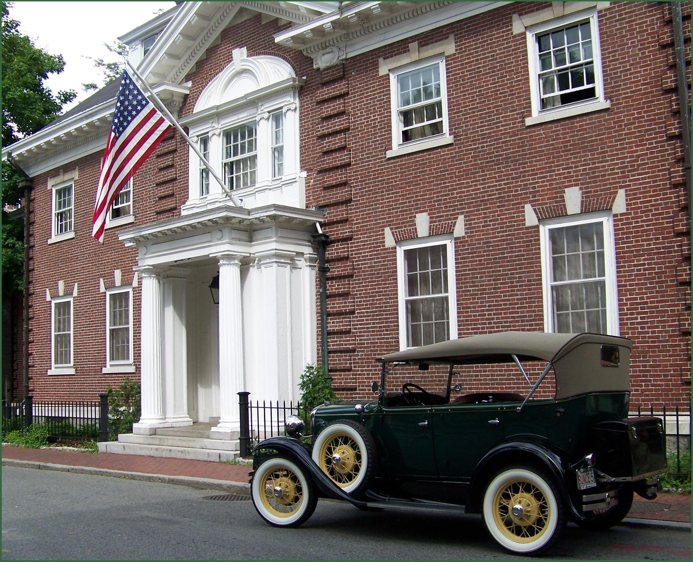 owlclubhouse